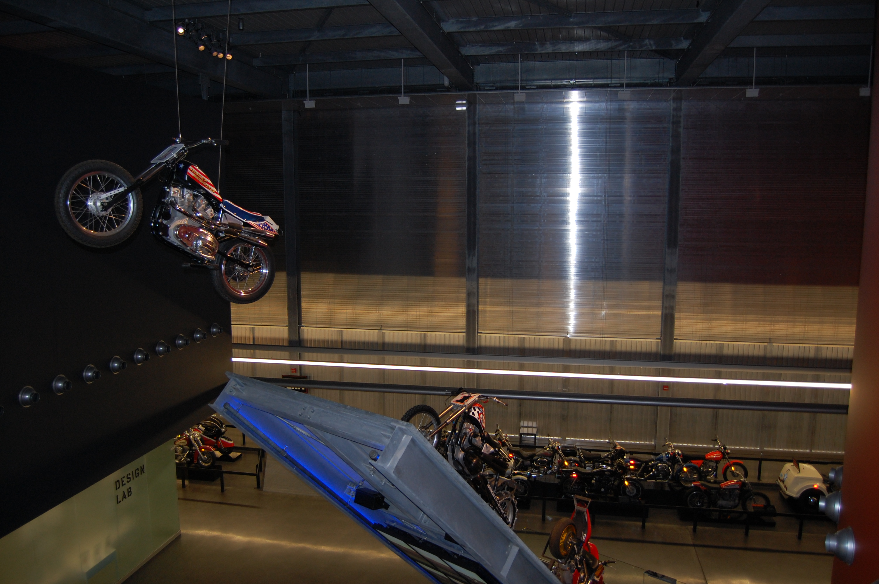 Evel Knievel Jump Bike Suspended in the Harley-Davidson Museum in Milwaukee, WI.